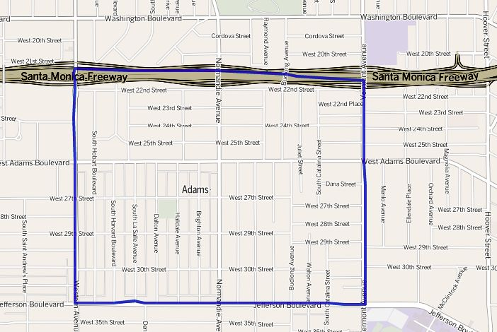 Map of Adams-Normandie, the boundaries of which were drawn by the Los Angeles Times. Other information Note at bottom right of map on the L.A. Times website noted above says "CC-by-SA" (which gives permission to use the map). There is a link there to which explains the meaning thereof. The base map is credited to